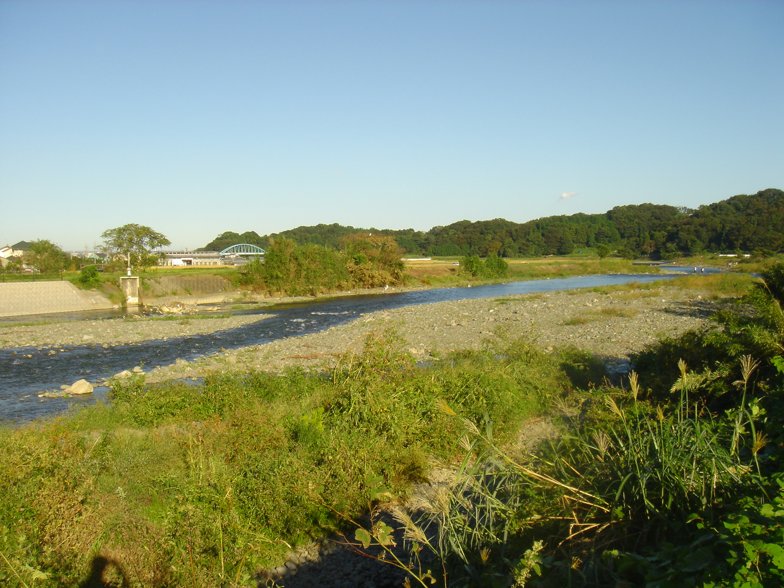 RiverKanamegawa in Hiratsuka city.